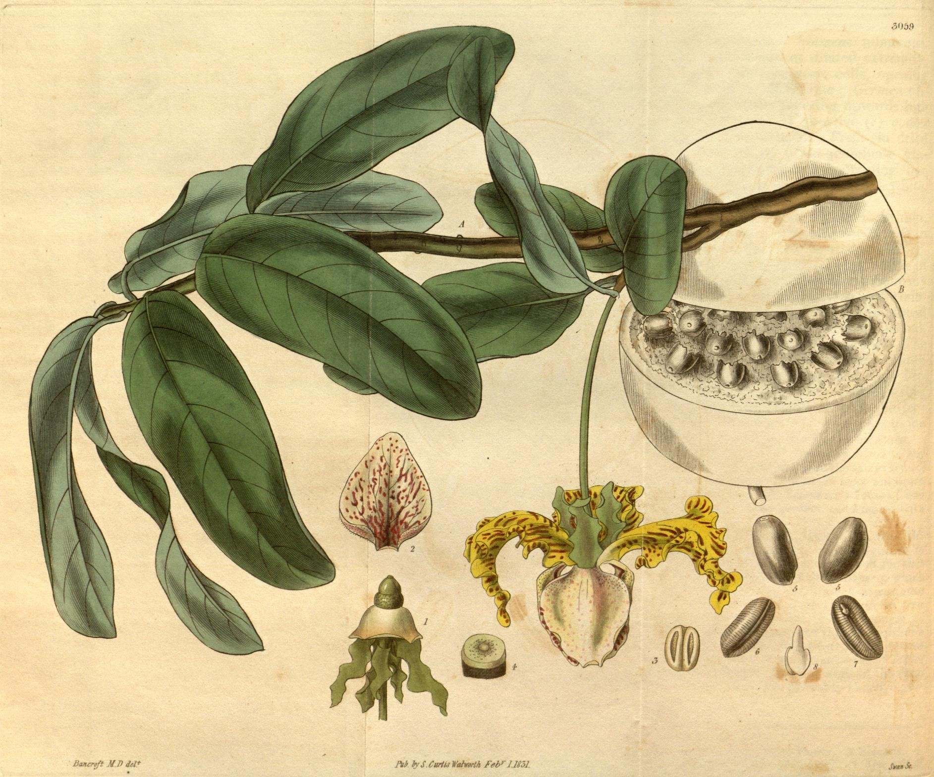 3050 Bancroft MP del* m JryS.CuiiuVatveHh feb F LMol. SnmSt